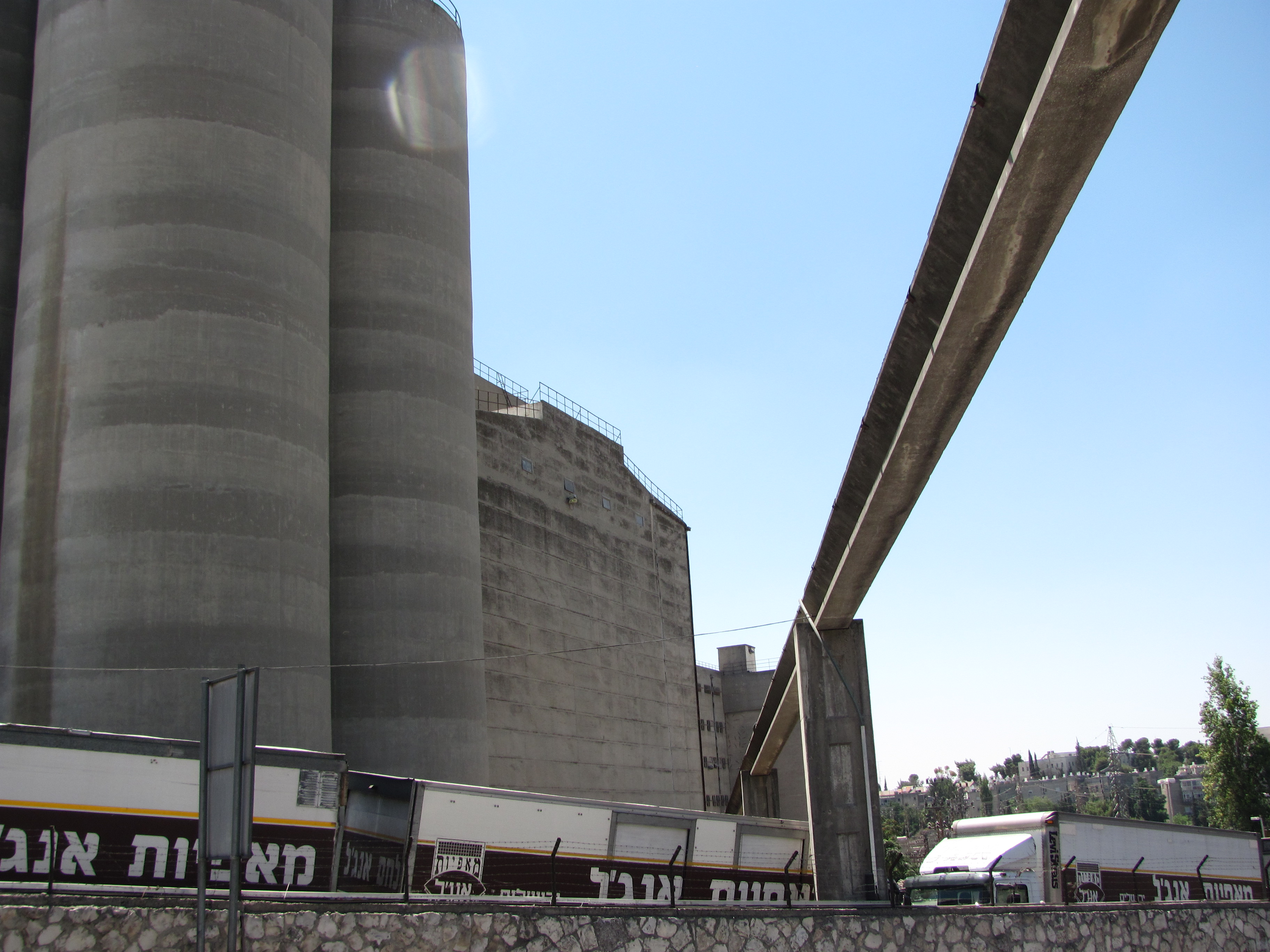 Angel Bakeries' overhead flour pipeline on Beit Hadfus Street in Givat Shaul, Jerusalem. Also seen: Flour silos (left) and Angel Bakeries trucks (below).